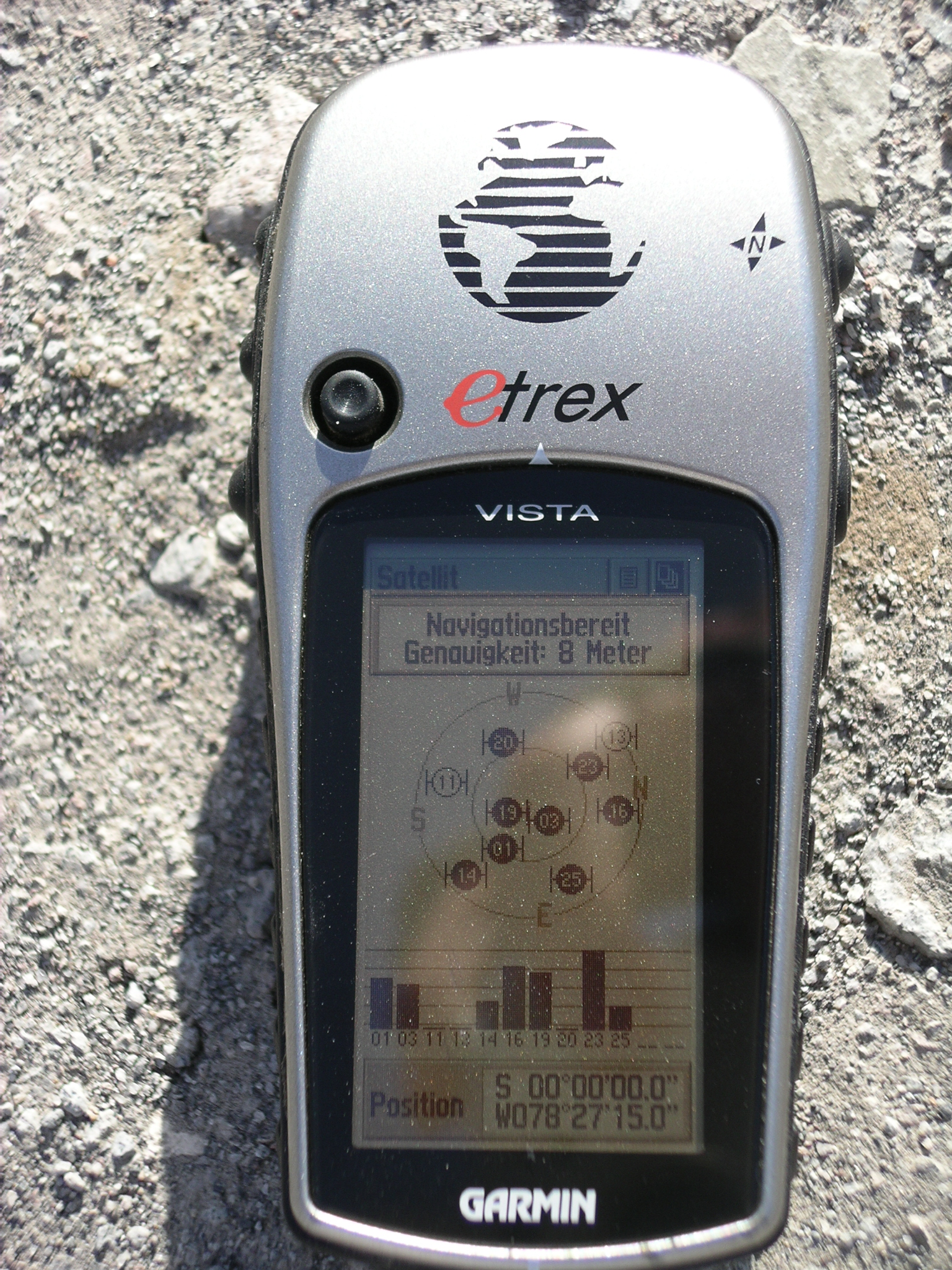 The Equator near Quito in Ecuador seen on a GPS. The true ecuatorial line lies about 240 meters north of the line calculated and drawn by Charles Marie de la Condamine in 1736.